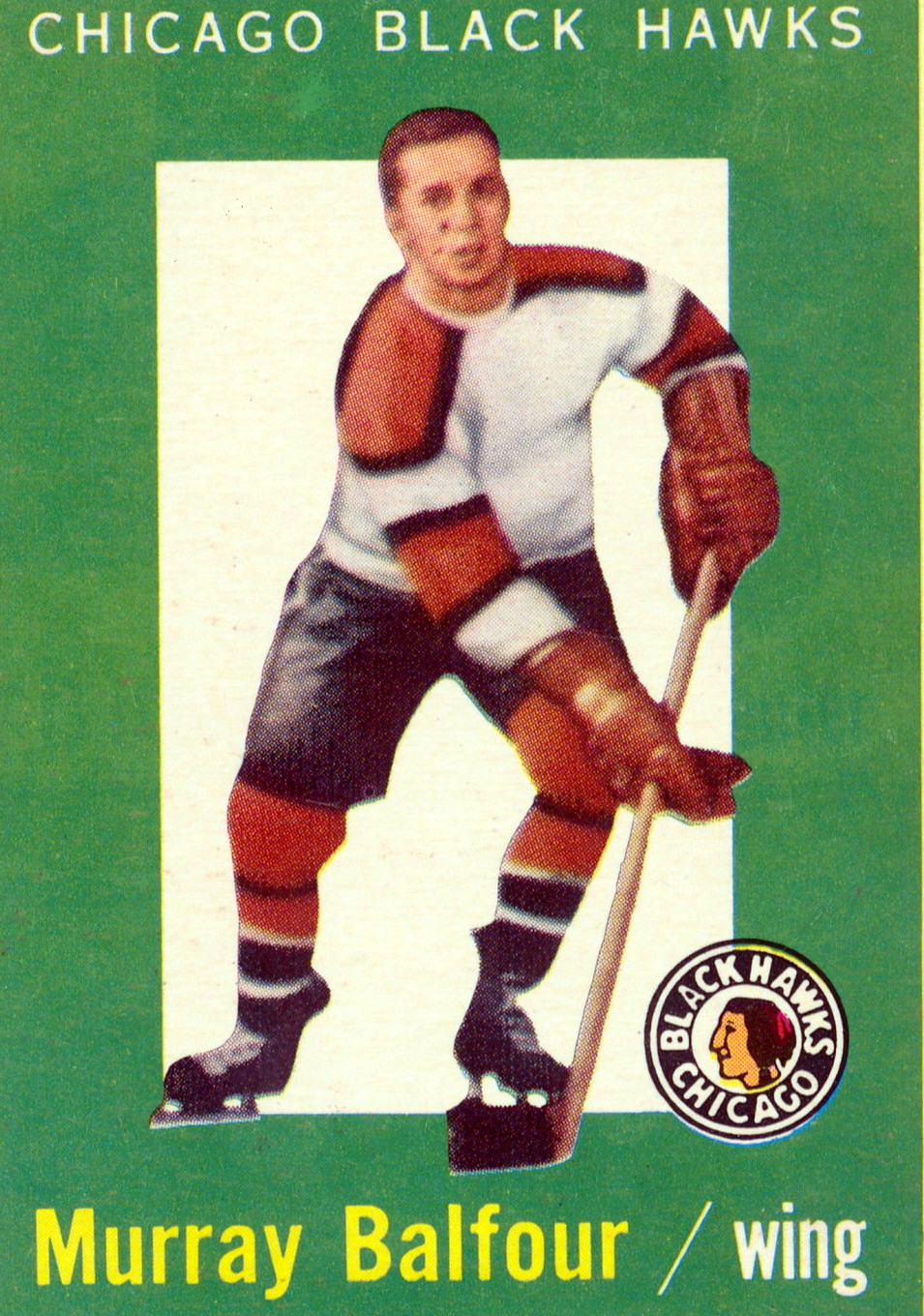 Trading card photo of Murray Balfour as a member of the Chicago Blackhawks.